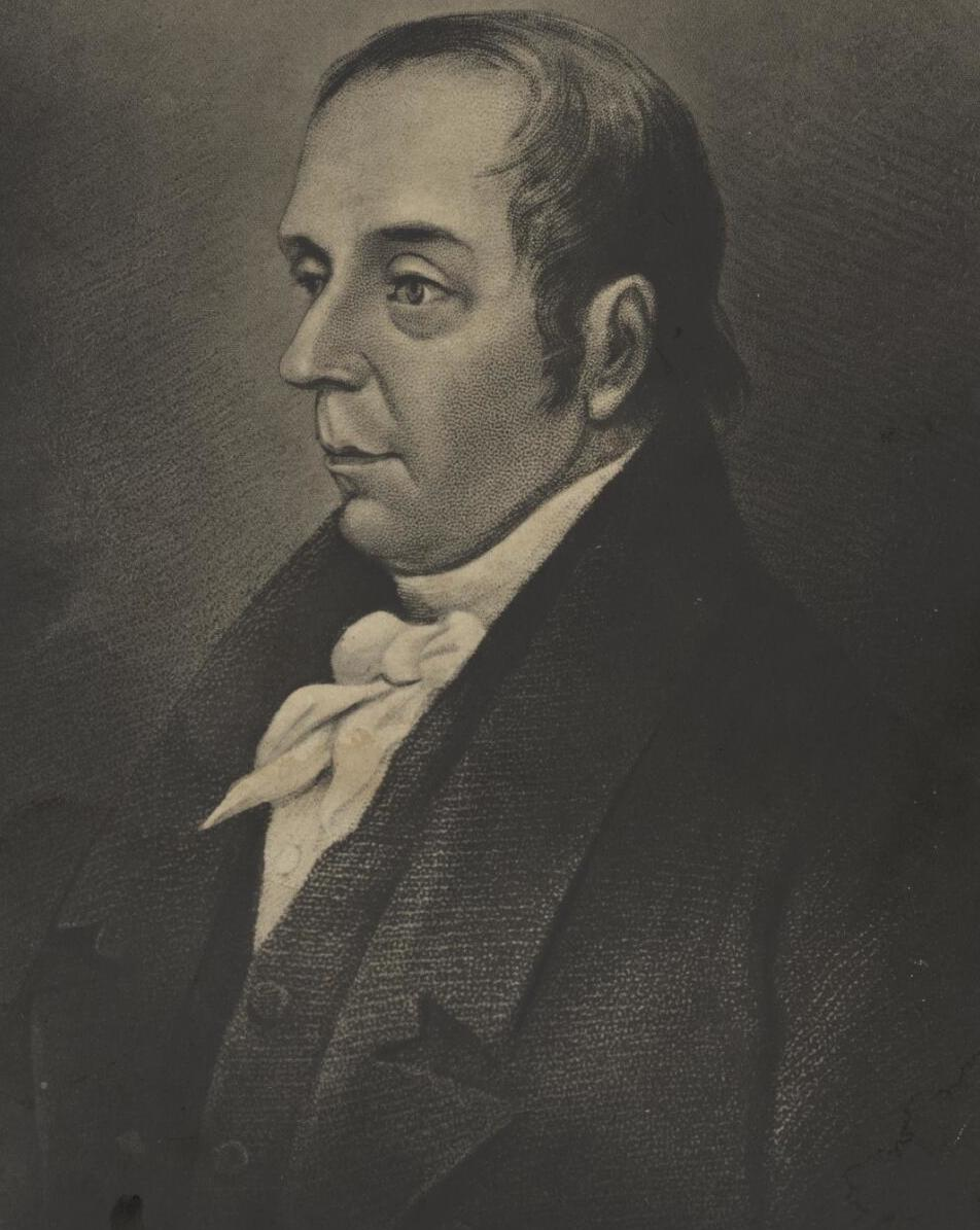 A portrait from the Welsh Portrait Collection at the National Library of Wales. Depicted person: Joseph Harris – Welsh Baptist minister, author, journal editor and poet